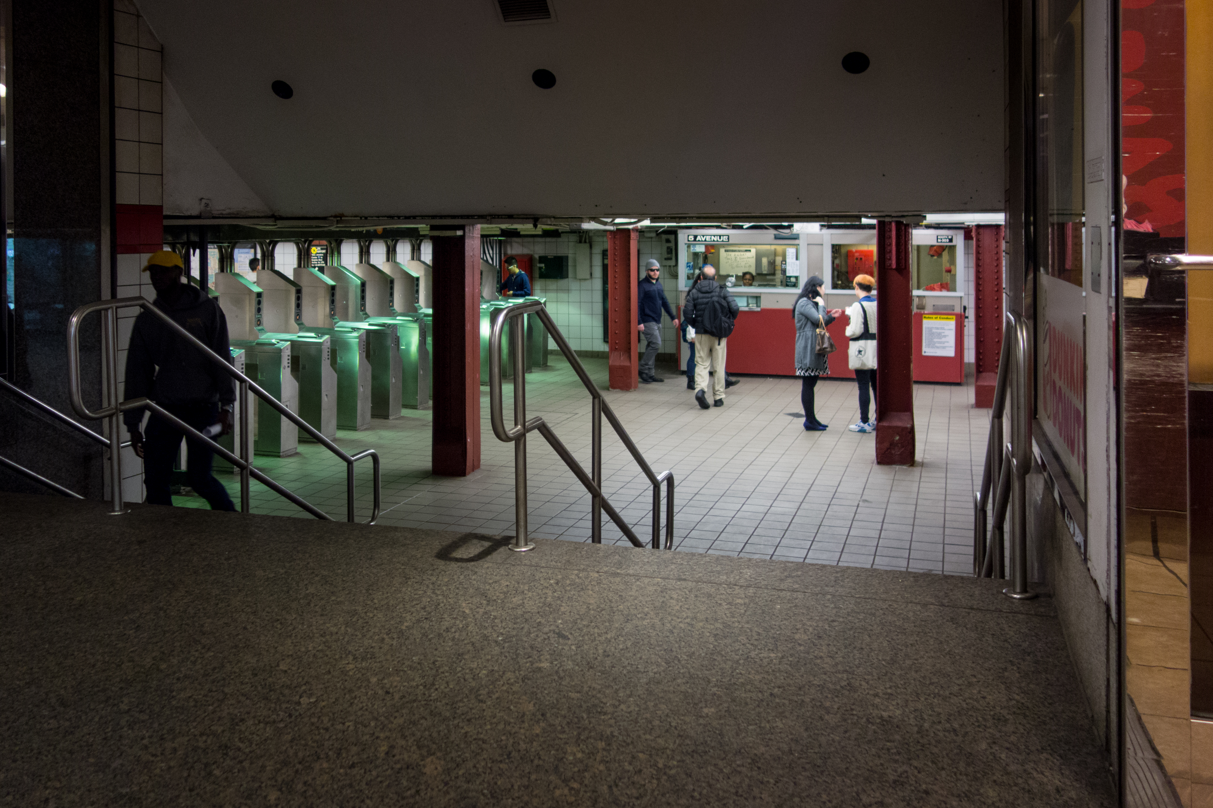 NYC Subway station 5th Avenue